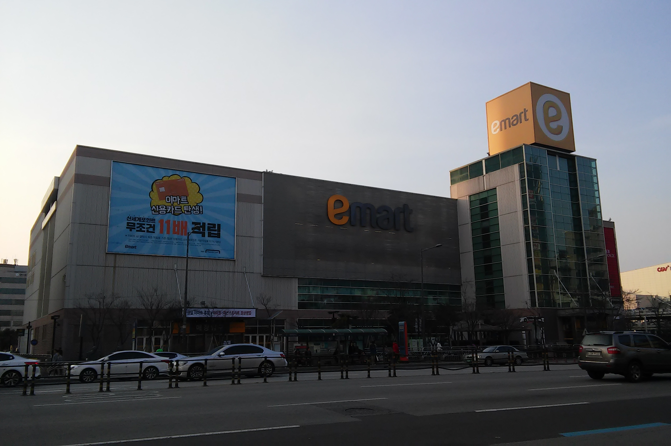 Located in the Republic of Korea E-Mart (Gwangju Branch)